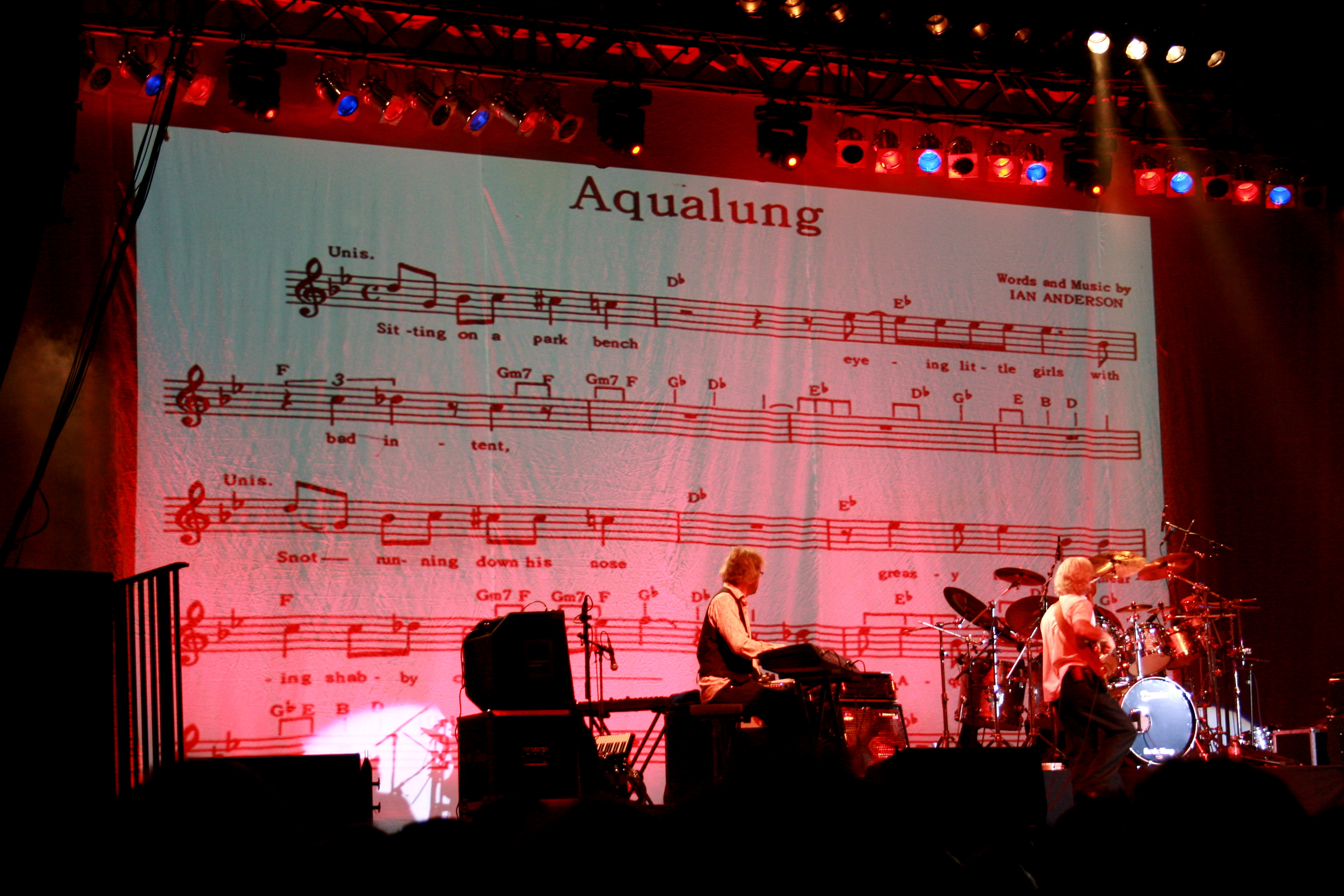 Jethro Tull concert, 14. Mar. 2009, Uni-Halle (Wuppertal)